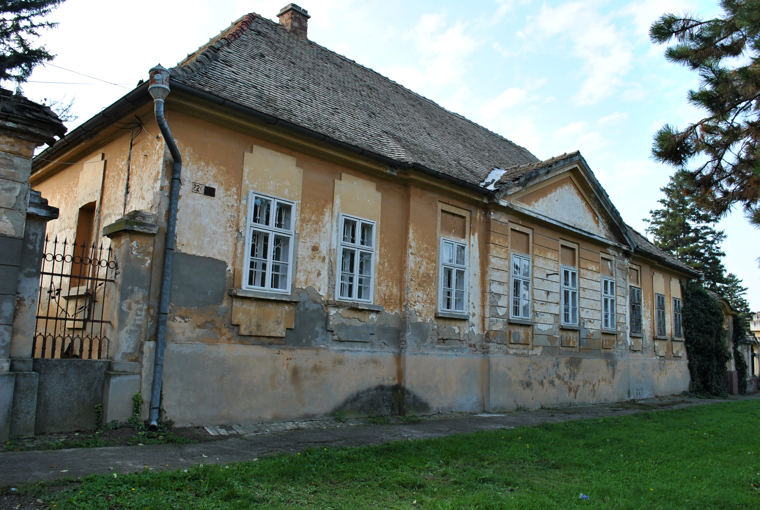 Kulpin - Serbia - So-called "Small Manor-house", or Stratimirović Family House, 2nd half of the 18th century